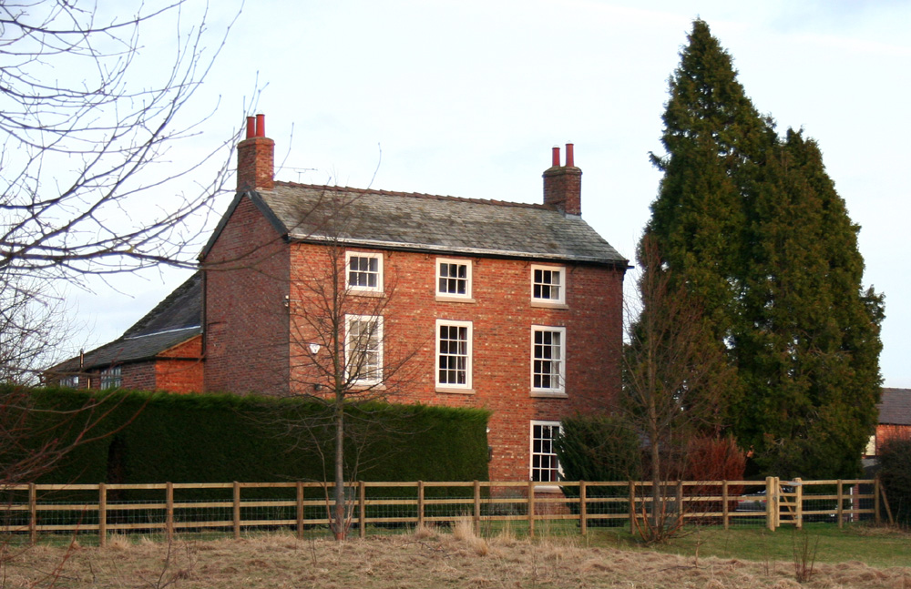 Madam's Farm, near Acton, Cheshire